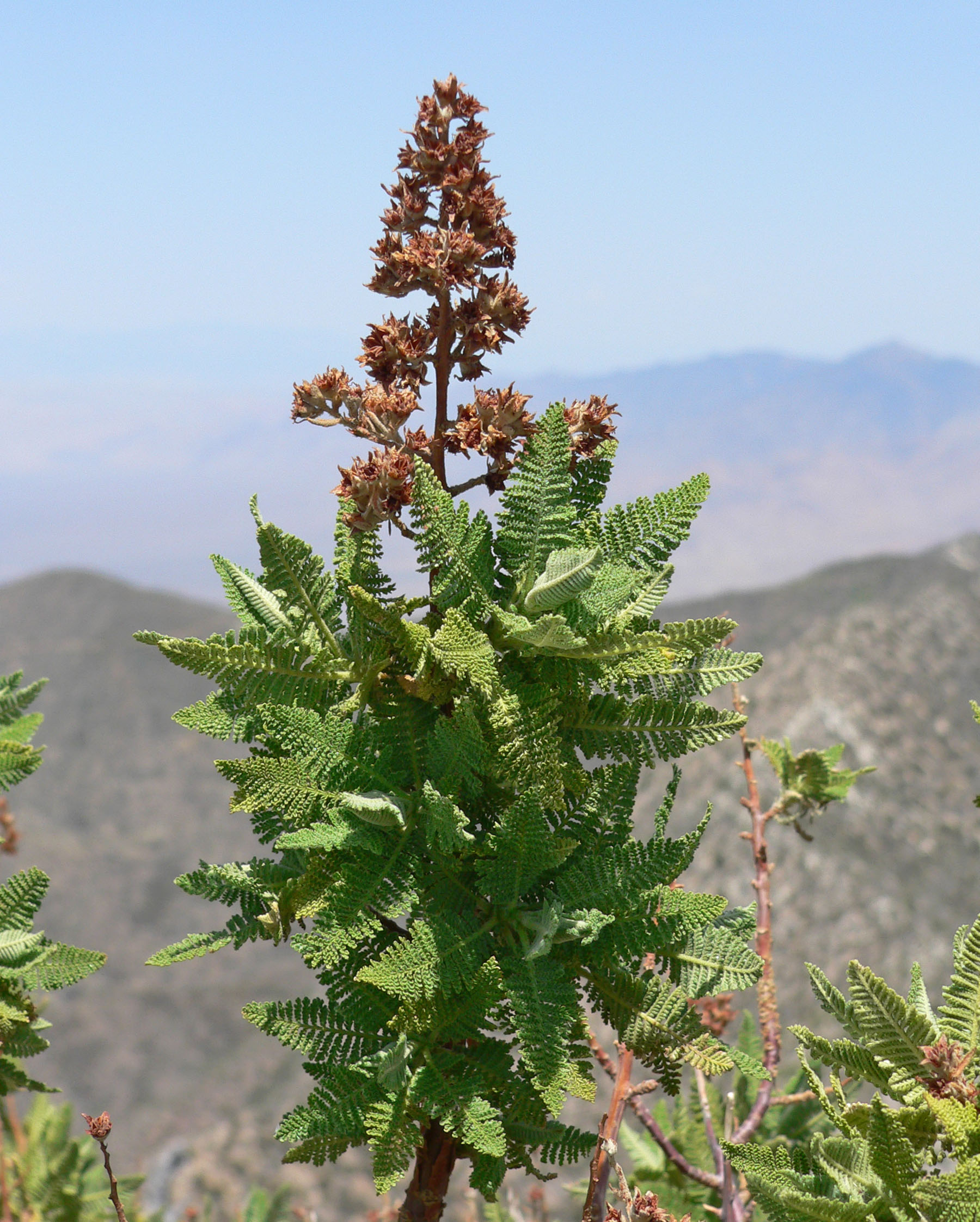 Chamaebatiaria millefolium at the summit of Virgin Peak, southern Nevada (elev 2460 m)